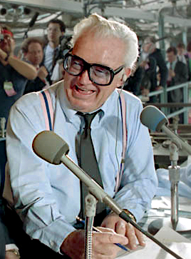 Harry Caray during a Cubs-Pirates game at Wrigley Field - 9/30/88.